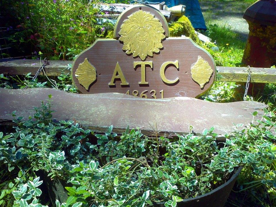 This sign stands at the driveway of the Aquarian Tabernacle Church's Mother Church in Index Washington.